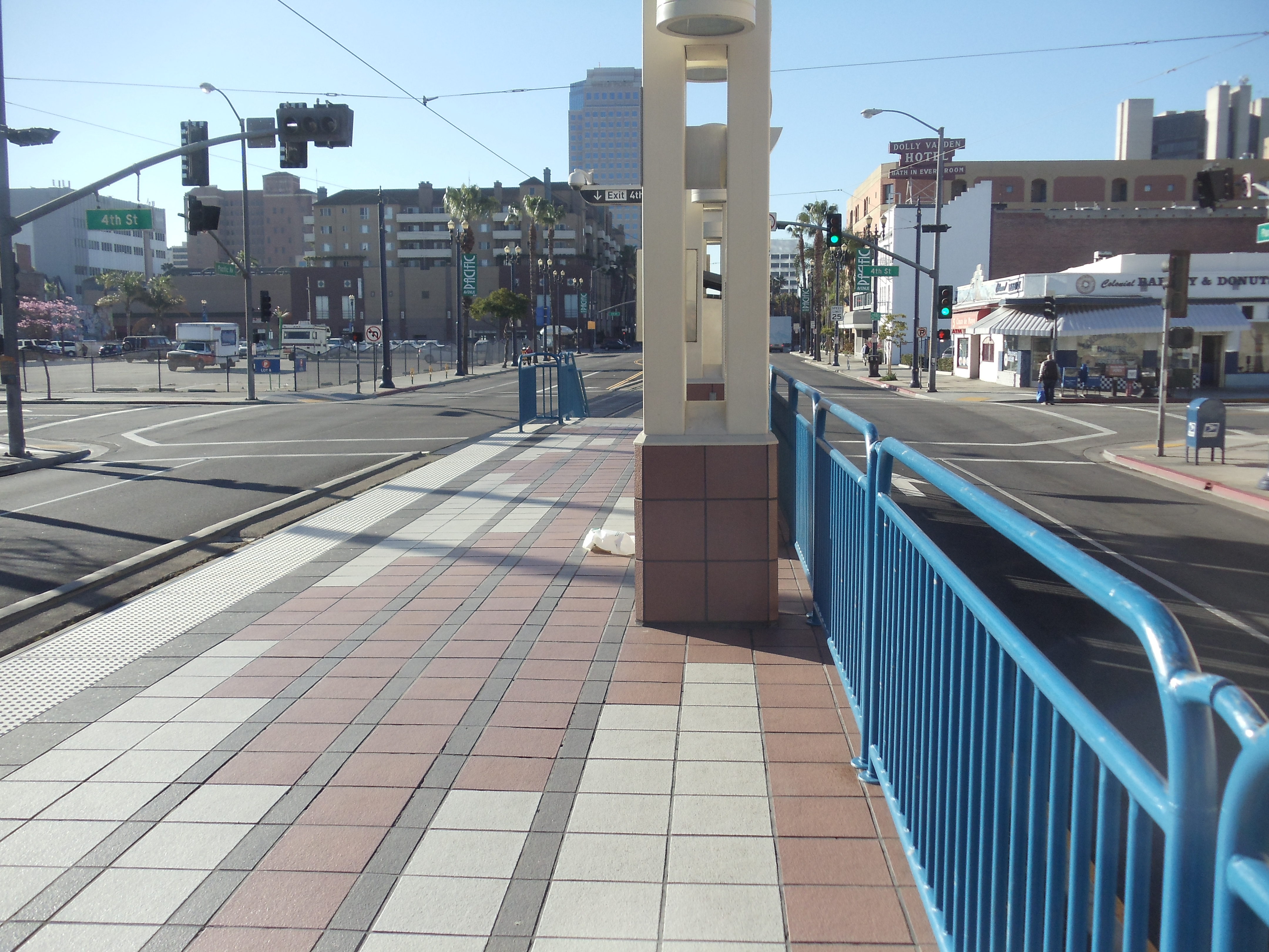 Pacific Blue Line Station platform.